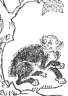 Penghou (彭侯, Tree spirit) (和漢三才図会)